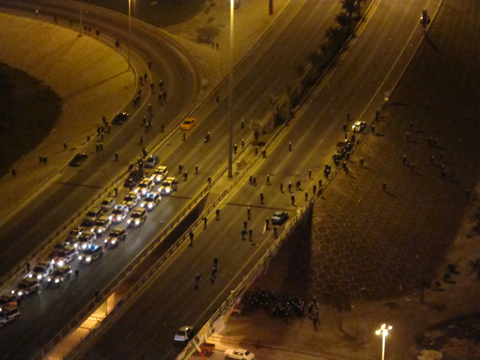 Police moving to Pearl Roundabout from the northern side